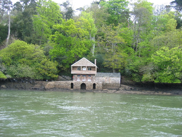 Greenway House Boathouse. Greenway house is the former home of Agatha Christie and is now owned by the National Trust. This boathouse on the River Dart is part of the property